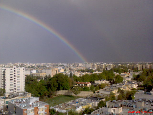 Shiraz City norheast view